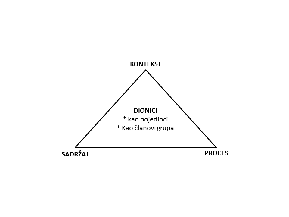 Walt Gilson triangle of health policy Srpskohrvatski / српскохрватски: Walt-Gilsonov trokut zdravstvene politike